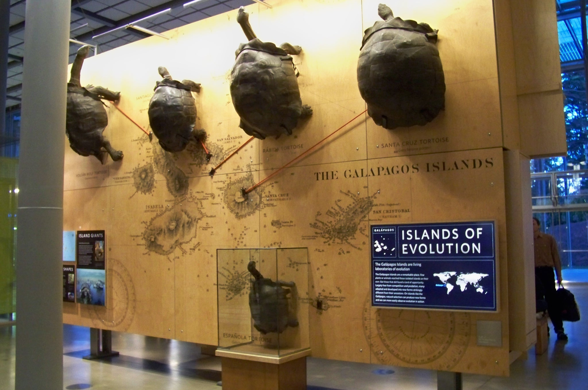 At the California Academy of Science in San Francisco, California